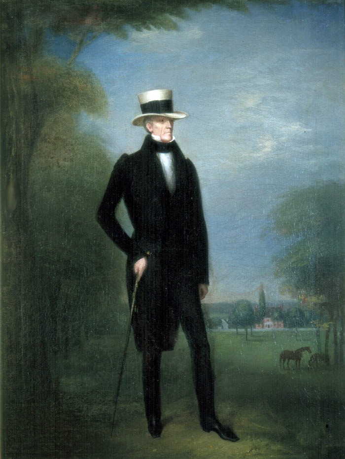 "Tennessee Gentleman," portrait of an elderly Andrew Jackson, by the painter Ralph E. W. Earl, oil on canvas, 1828-1833. 30 in. x 20 in. Portrait is in the collection of The Hermitage, Nashville, Tennessee. Image courtesy of the Tennessee Portrait Project.